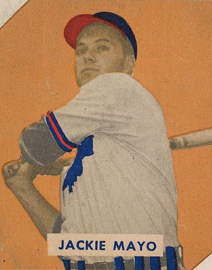 Bowman Gum CompanyJackie Mayo, part of the 1949 Bowman Baseball series (R406-2) issued by Bowman Gum Company., 1949 American, Commercial color lithograph; Sheet: 2 1/2 x 2 1/16 in. (6.4 x 5.3 cm) The Metropolitan Museum of Art, New York, The Jefferson R. Burdick Collection, Gift of Jefferson R. Burdick (Burdick 326, R406-2.176)